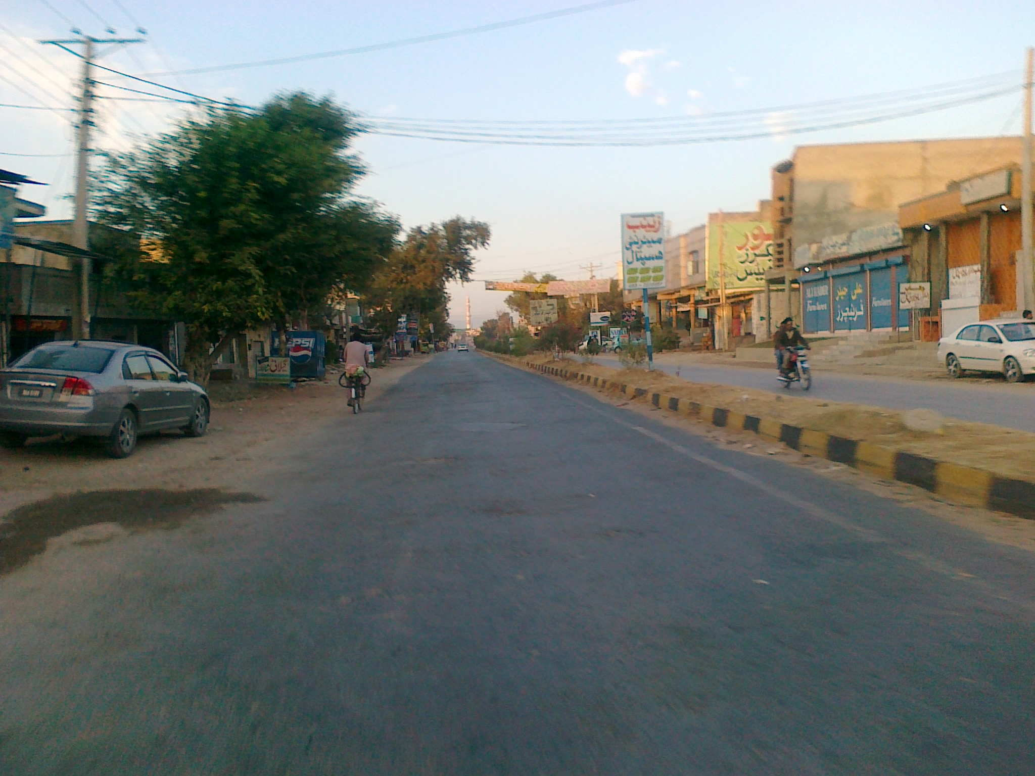 Bhimber Road, Kotla Arab Ali Khan, Gujrat district, Punjab, Pakistan